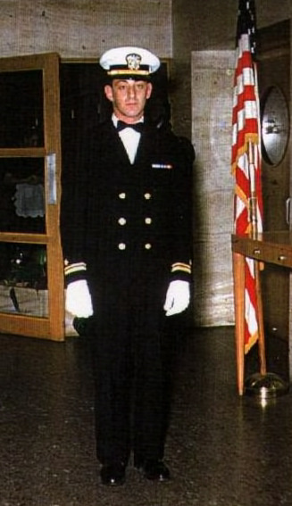 Harvey Milk in dress Navy Blue uniform for his brother's wedding in 1954